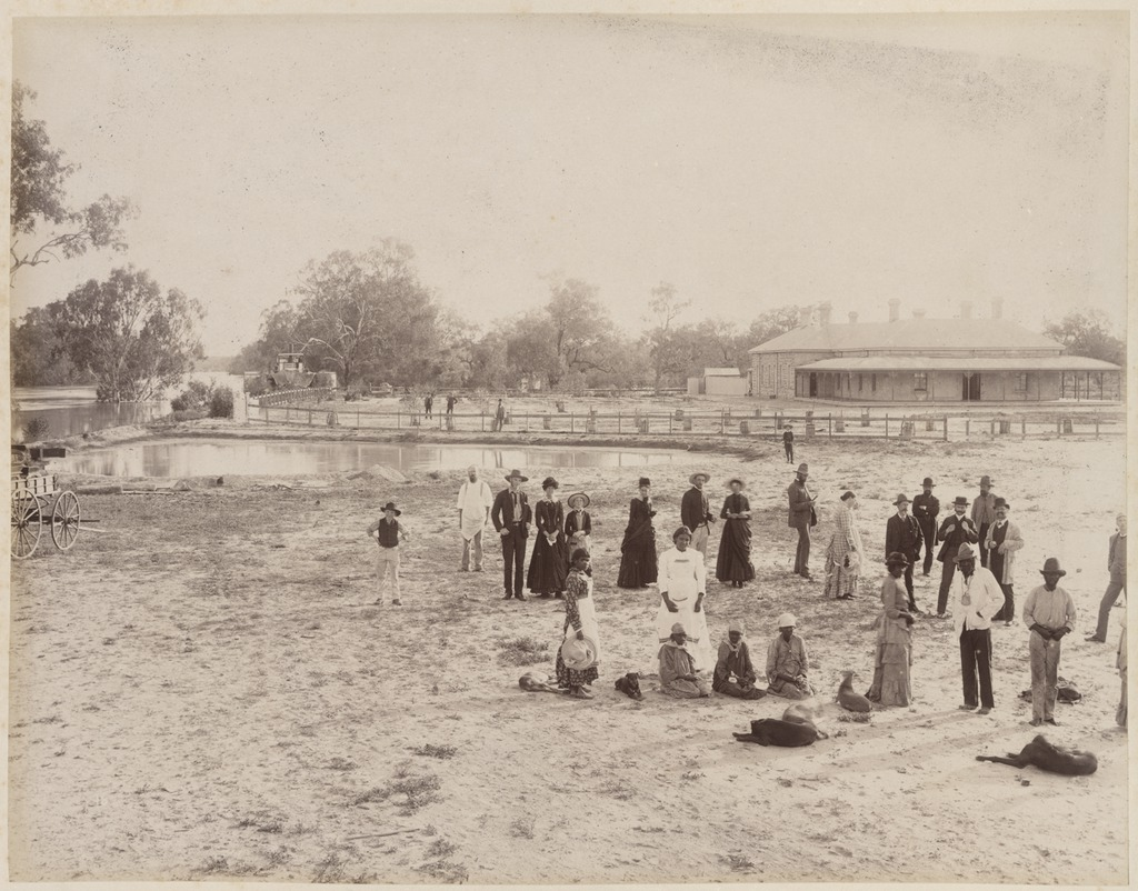 Bayliss, Charles, 1850-1897 Title devised by cataloguer based on inscription beneath photograph.; In: Views of scenery on the Darling & Lower Murray during the flood of 1886.; Inscriptions: "Homestead "Dunlop" Station, Darling River"--On label beneath photograph.; "C. Bayliss, photo, Sydney"--Photographer's blind stamp lower left corner.; Also available in electronic version via the Internet at: Persistent URL .au/nla.pic-vn3968241